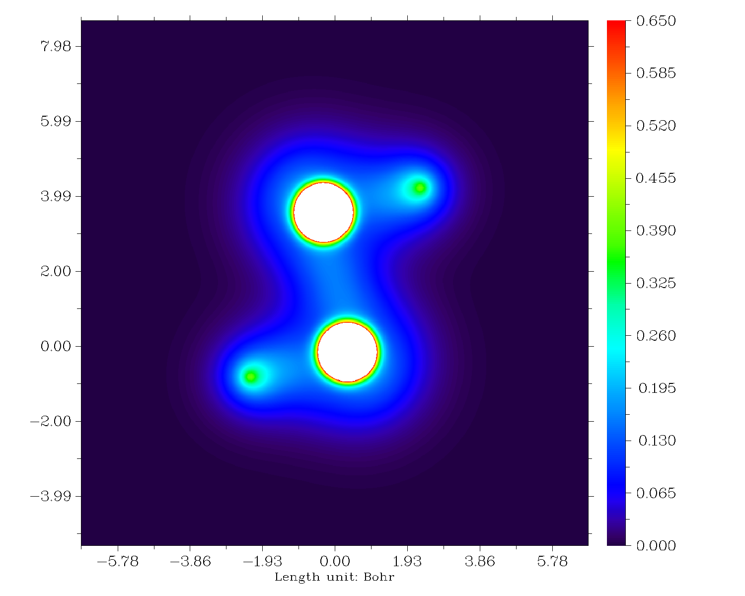 P2H2 density map